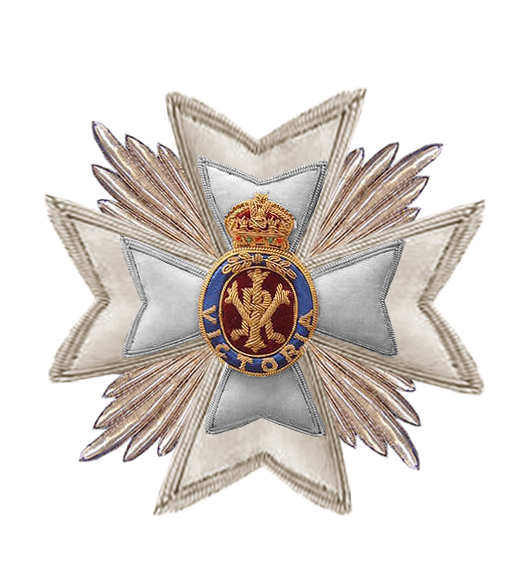 Star of a Knight or Dame Commander of the Royal Victorian Order